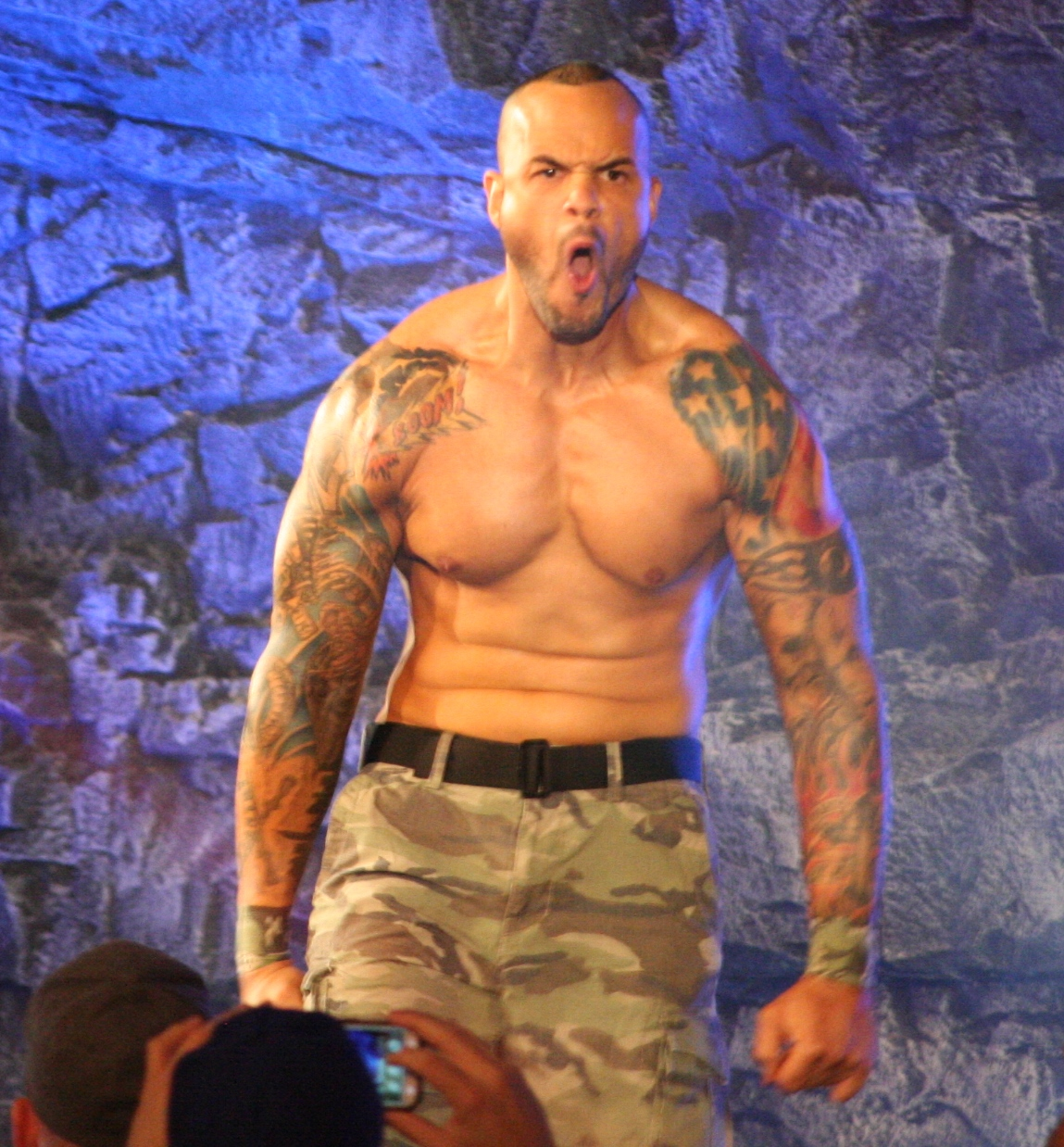 Chris Melendez at Bound for Glory in 2015.